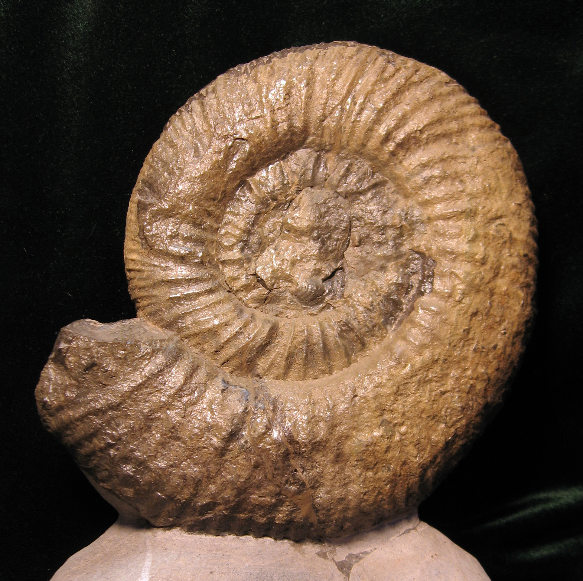 A 13.5cm in diameter fossil Cobbanites talkeetnanus, on shale matrix from the Middle Jurassic Sawtooth Formation, Teton County, Montana, USA. Stonerose Interpretive Center, Gary Eichhorn Ammonite Collection #SR EA 08-01-01.